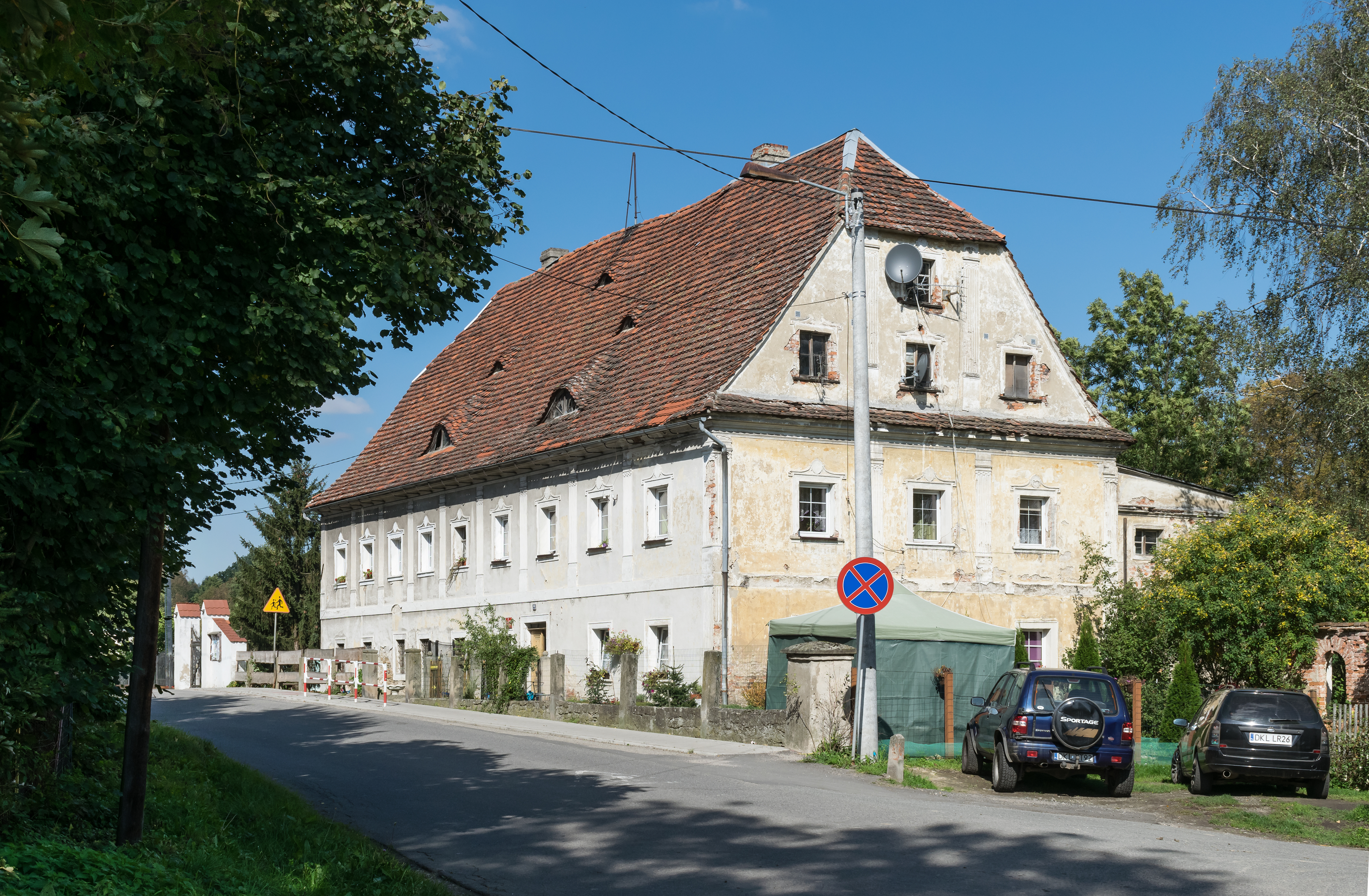 Hoecker Building in Długopole Górne Wikidata has entry Q30048744 with data related to this item.